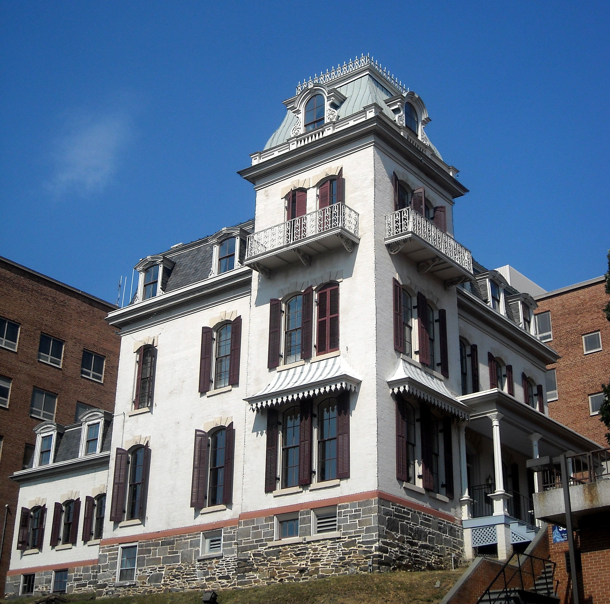 General Oliver Otis Howard House, commonly referred to as Howard Hall, located at 607 Howard Place, NW (also listed as 2401 6th Street, NW) on the campus of Howard University in Washington, D.C. The building was erected in 1867 and is a National Historic Landmark. Howard Hall is the oldest extant building on campus and now serves as the University's Alumni Center.